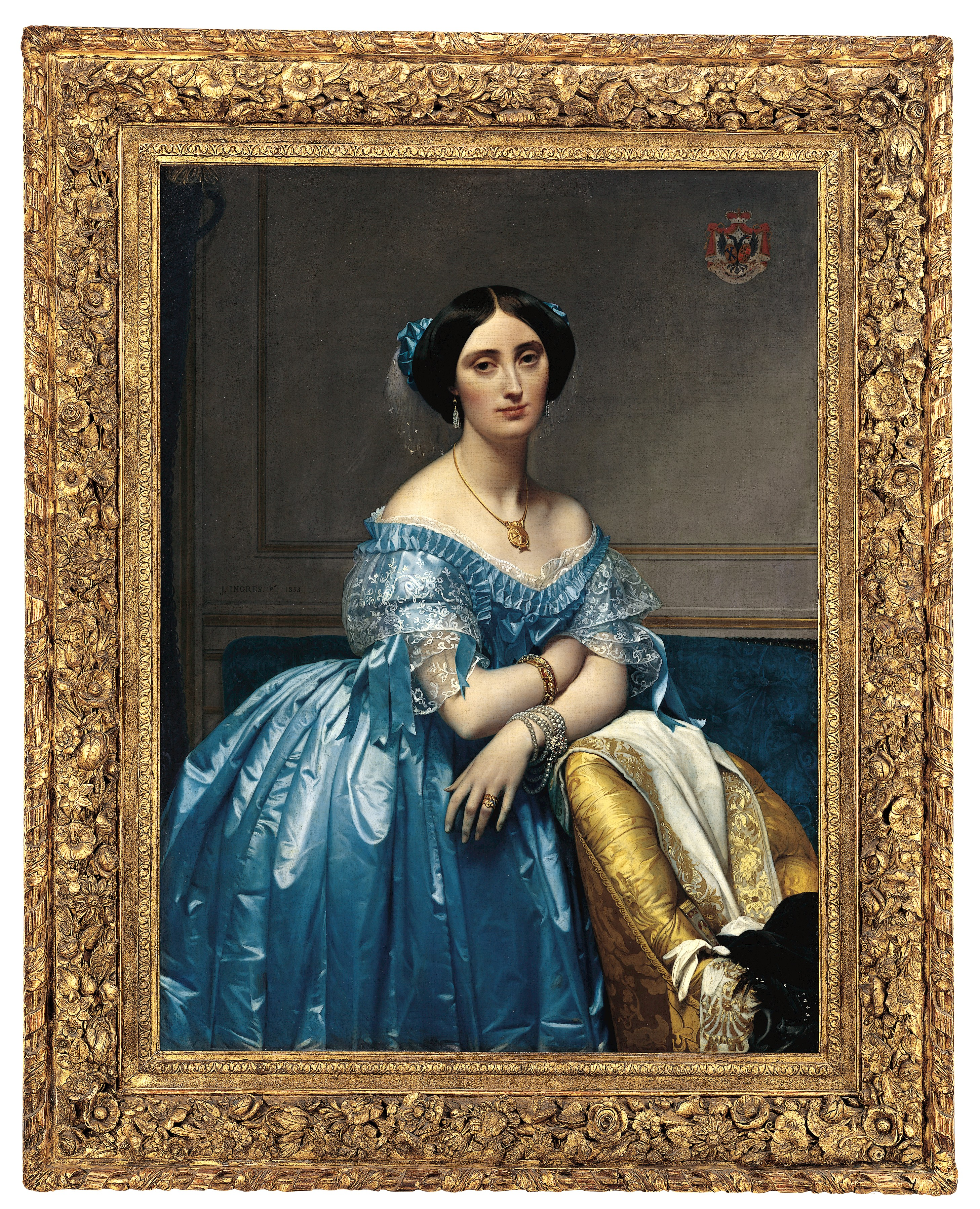 French (made United States); Frame; Frames